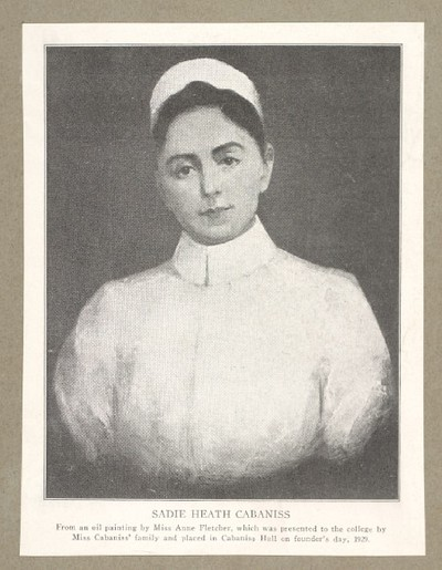 Woman in nursing uniform